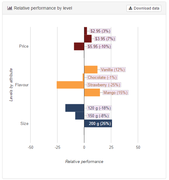 Sample output of conjoint analysis with application to marketing (a choice-based experiment on ice-cream performed on Conjoint.ly)